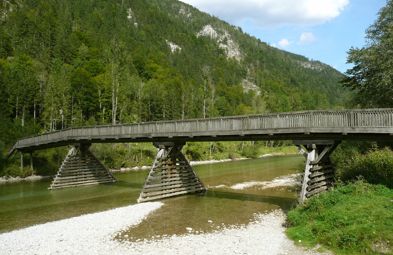 Wooden bridge on the Salza, upstream Wildalpen